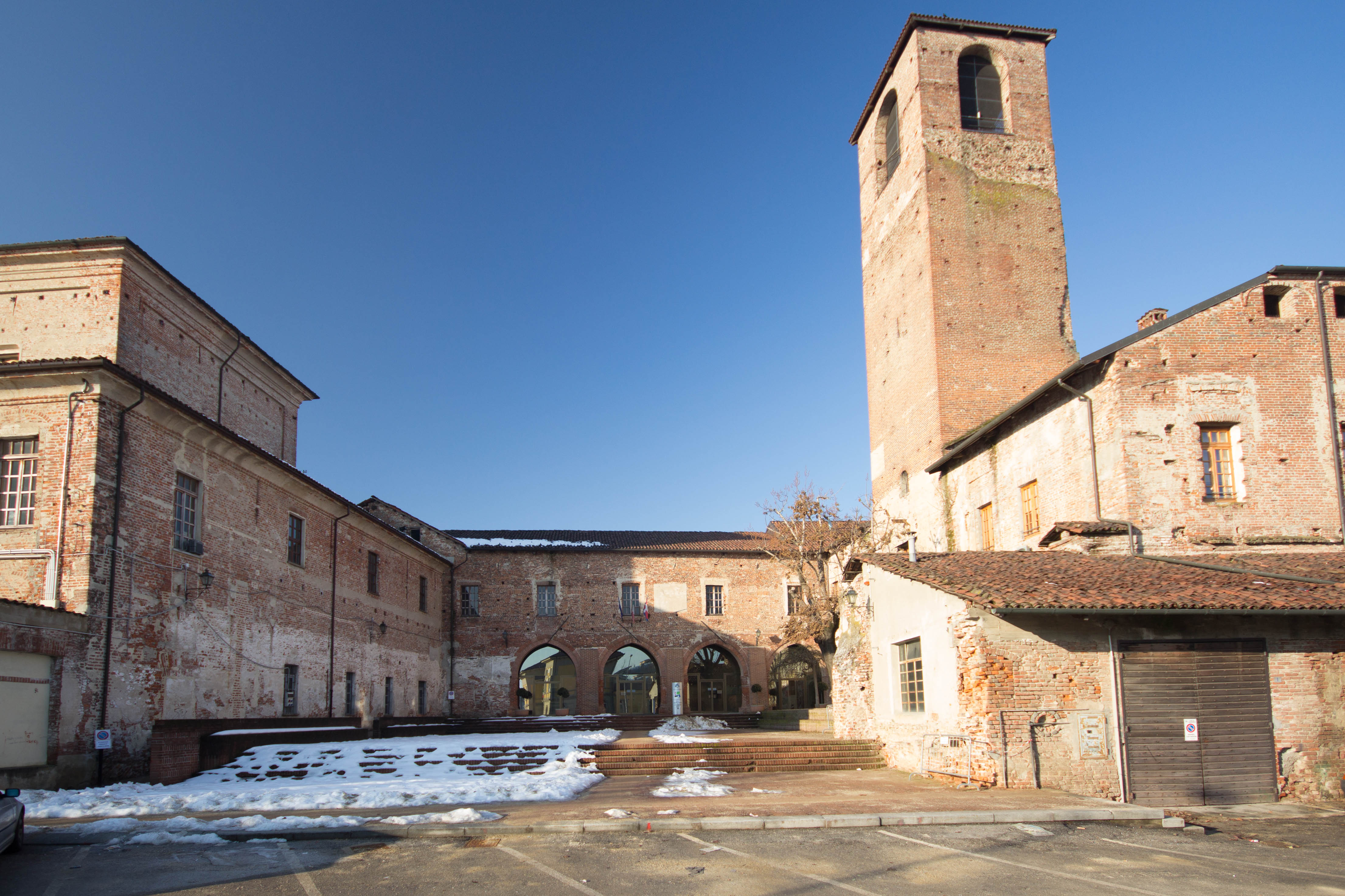 Castle Carmagnola town hall This is a photo of a monument which is part of cultural heritage of Italy.